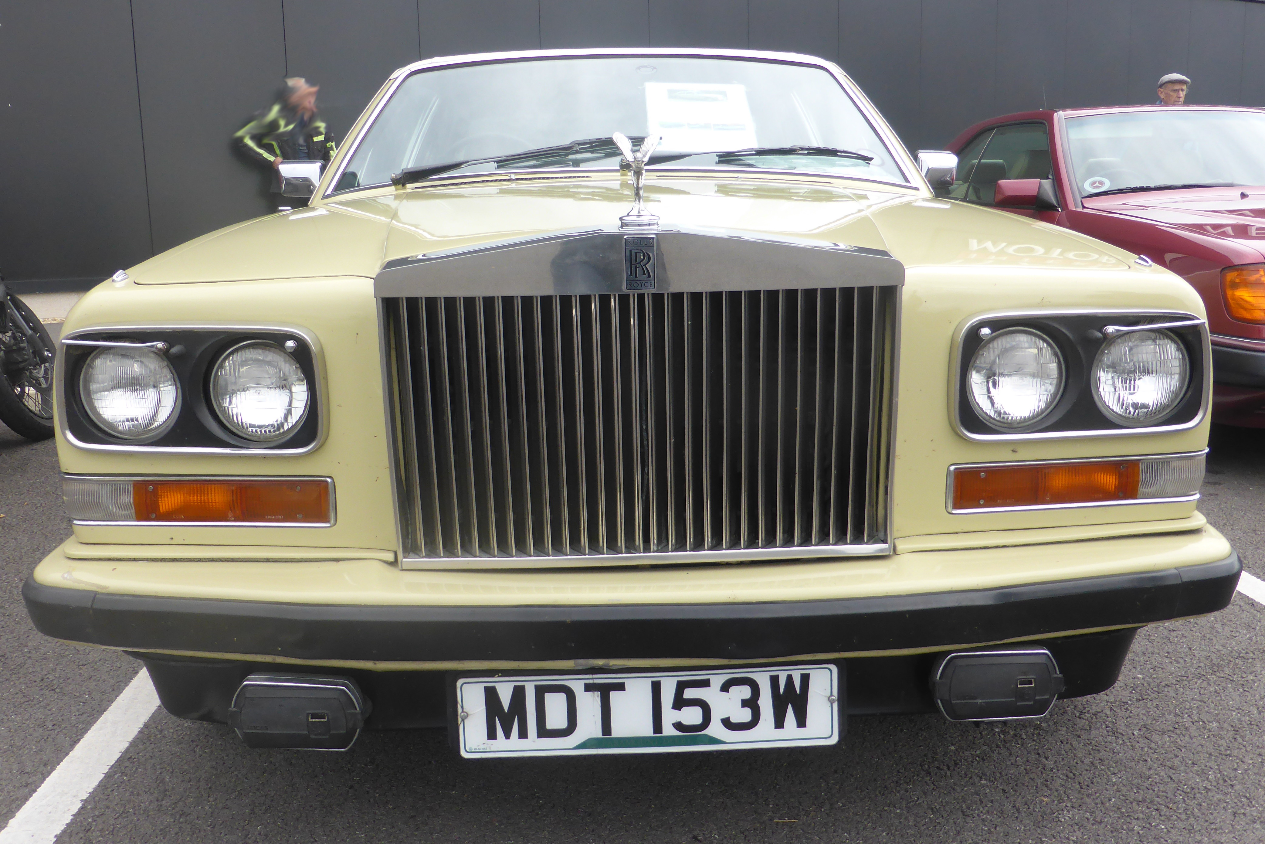 Haynes International Motor Museum Breakfast Club